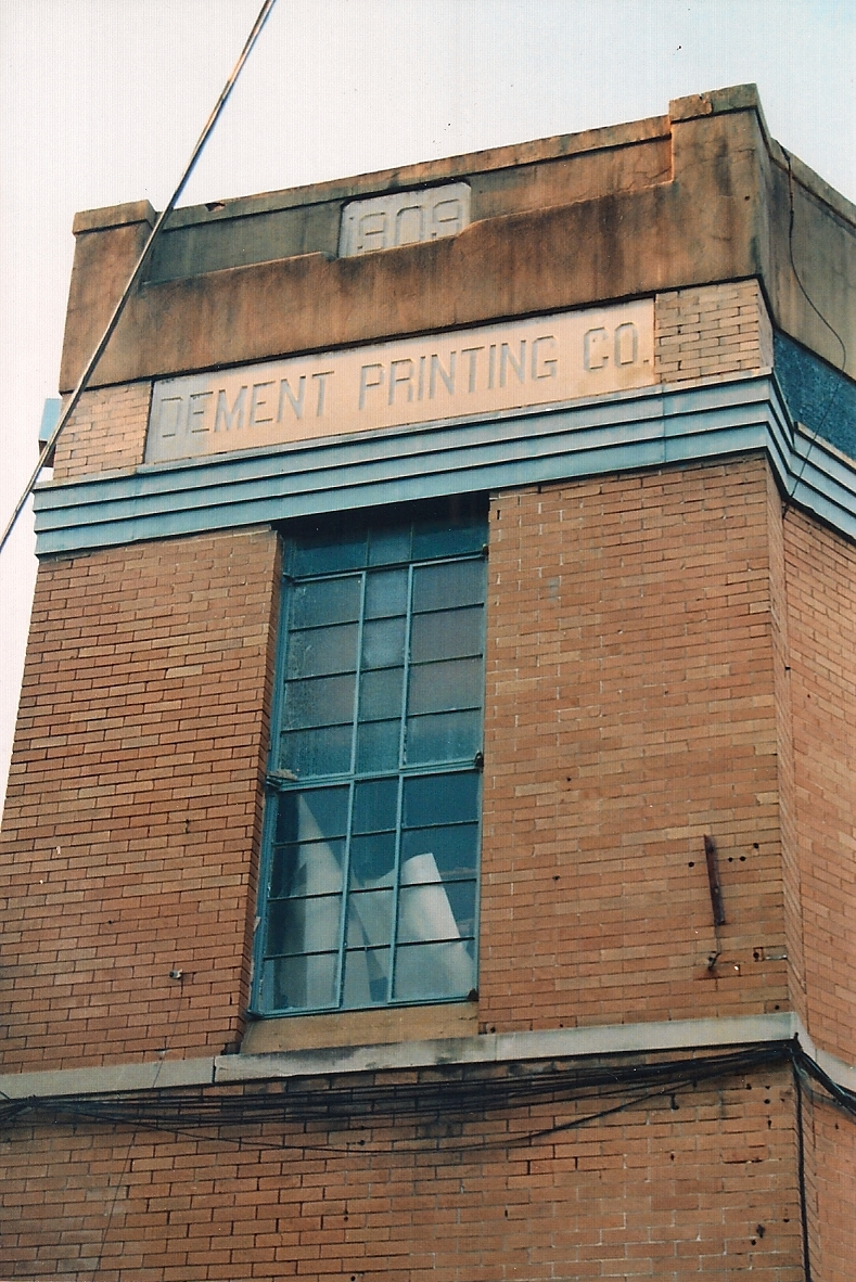 Entrance to Dement Printing Company in Meridian, MS